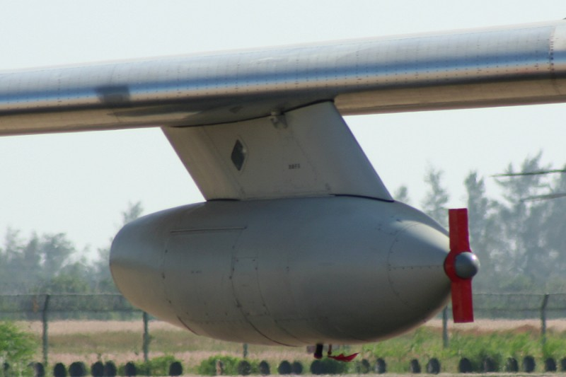 Xian HY-6U under-wing refuelling pods